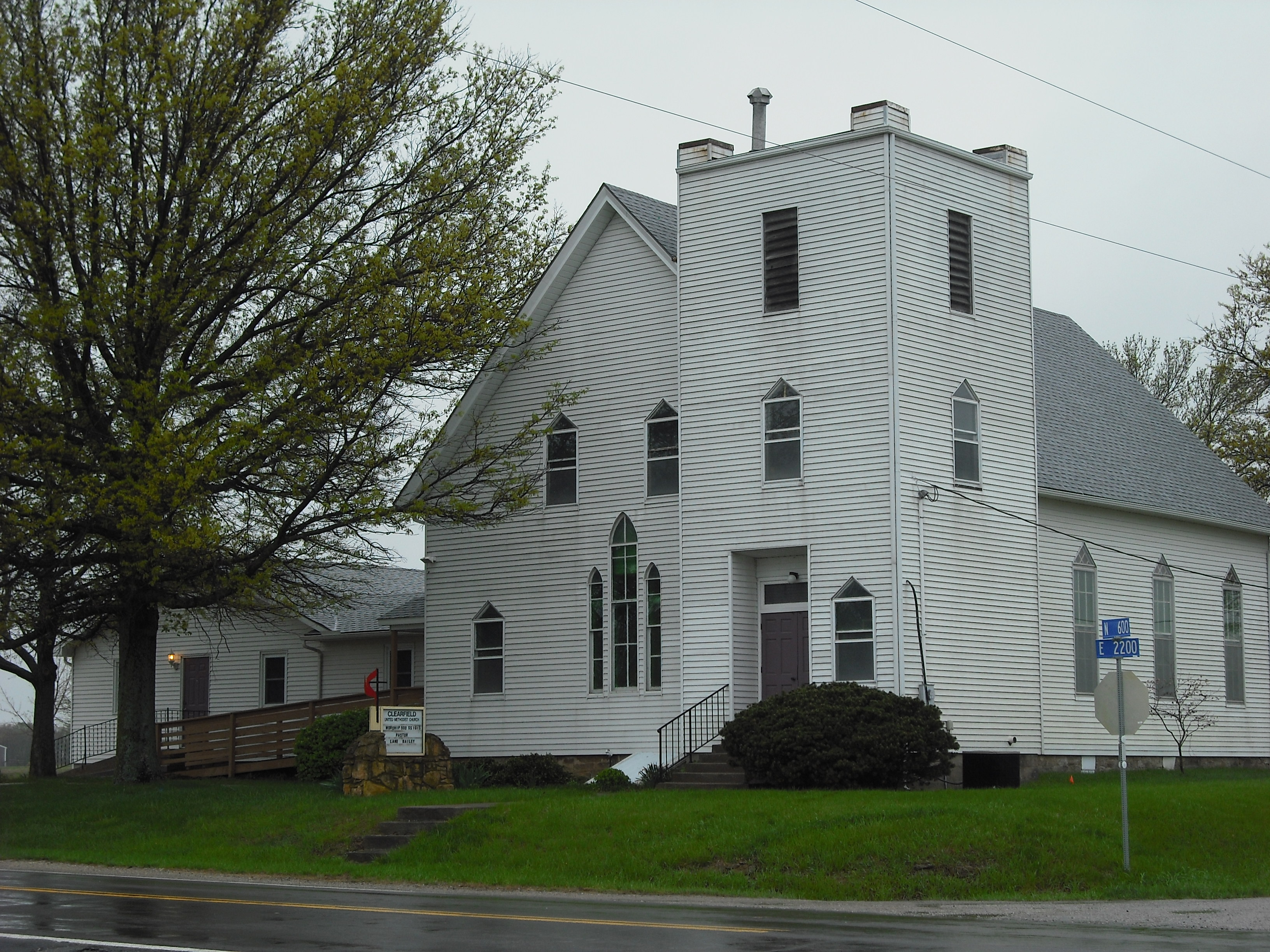 Clearfield Church located in Clearfield, Kansas located ten miles northeast of Baldwin City.